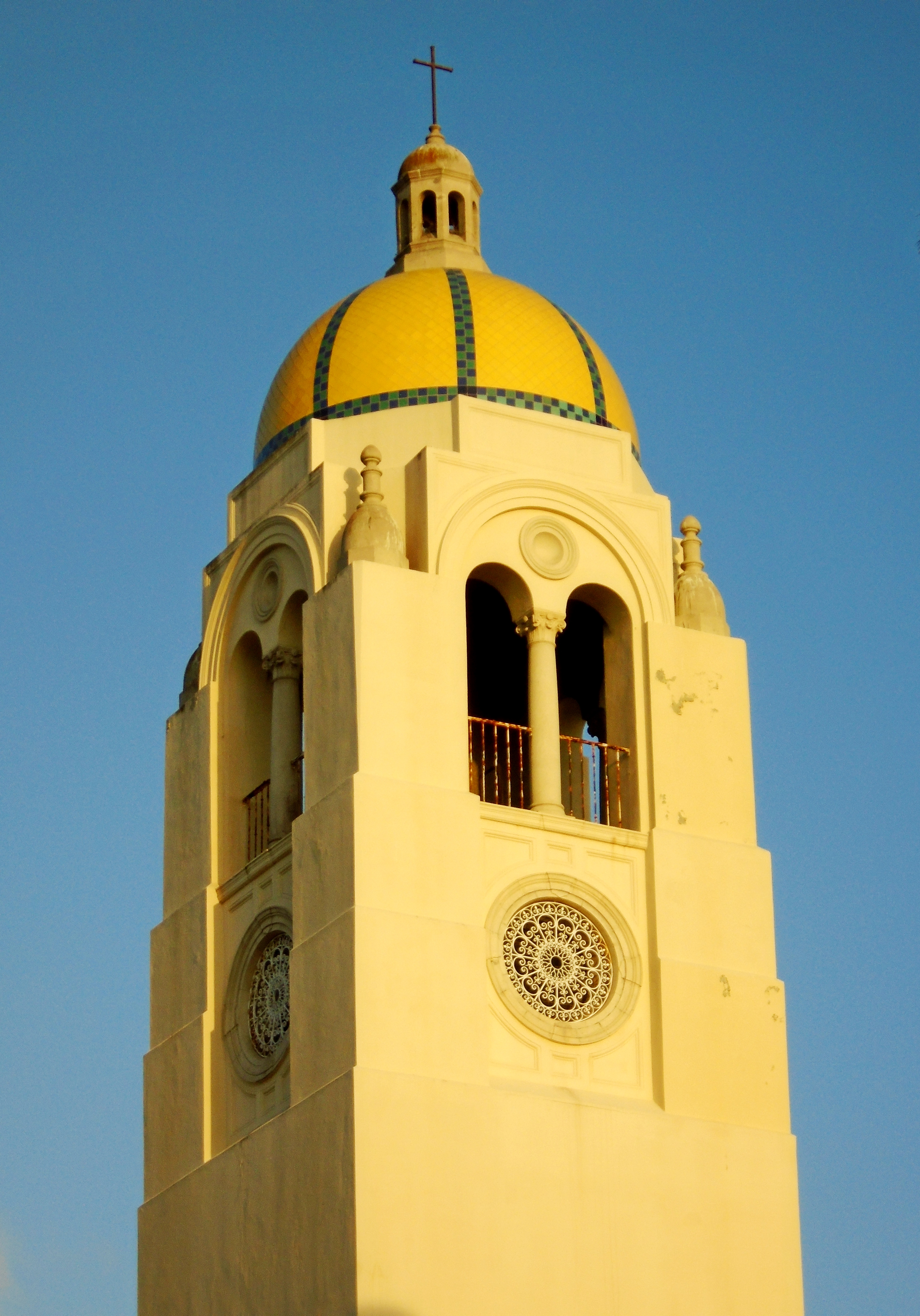 The Bishop's School, located at 7607 La Jolla Boulvard, is an Episcopalian college preparatory day school in La Jolla, San Diego, California. The original buildings were designed by architect Irving Gill in 1909. The school is a designated historical landmark of the City of San Diego.